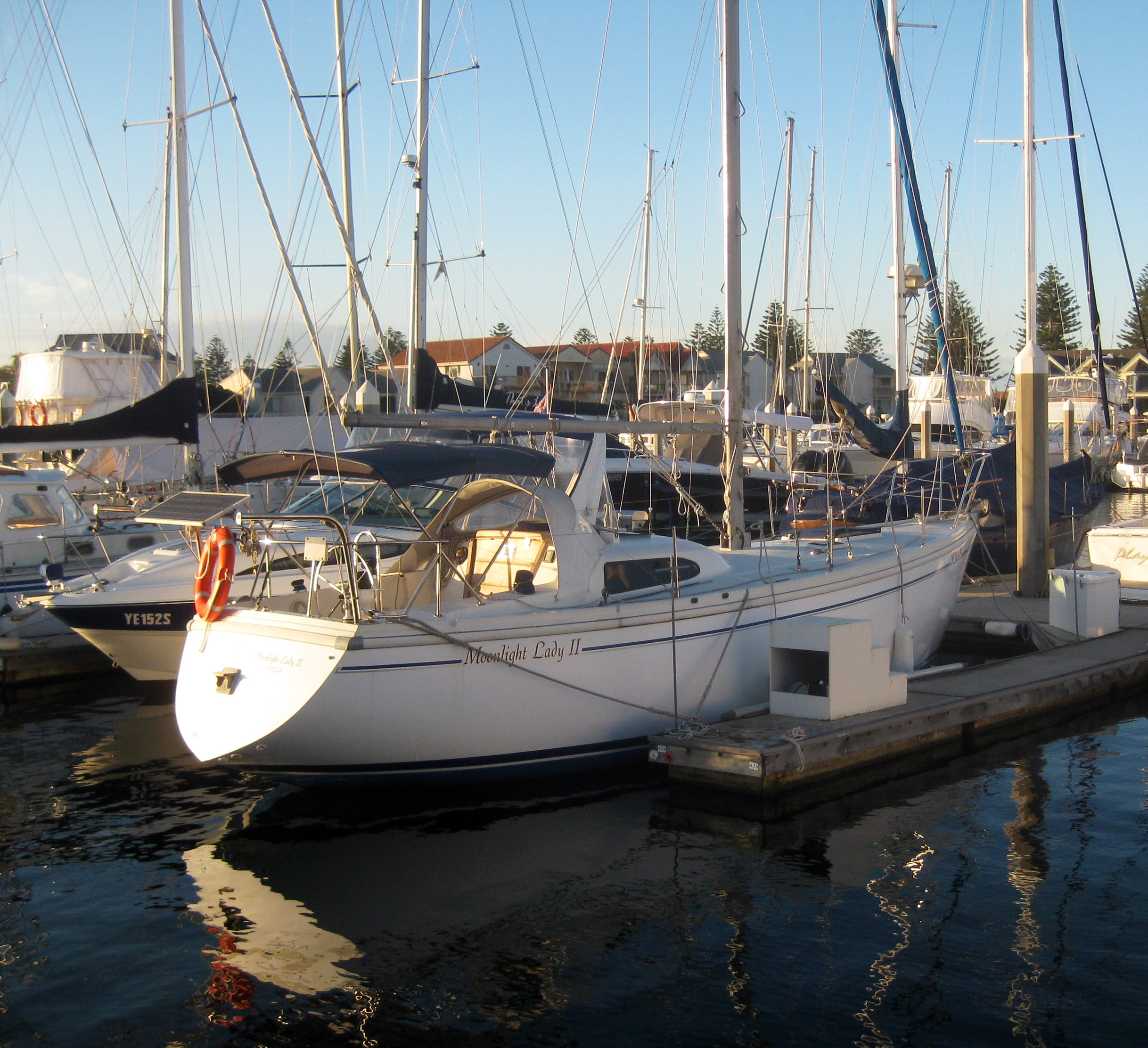 Moonlight Lady II, a Columbia 34 Mark II, moored in Adelaide, South Australia.